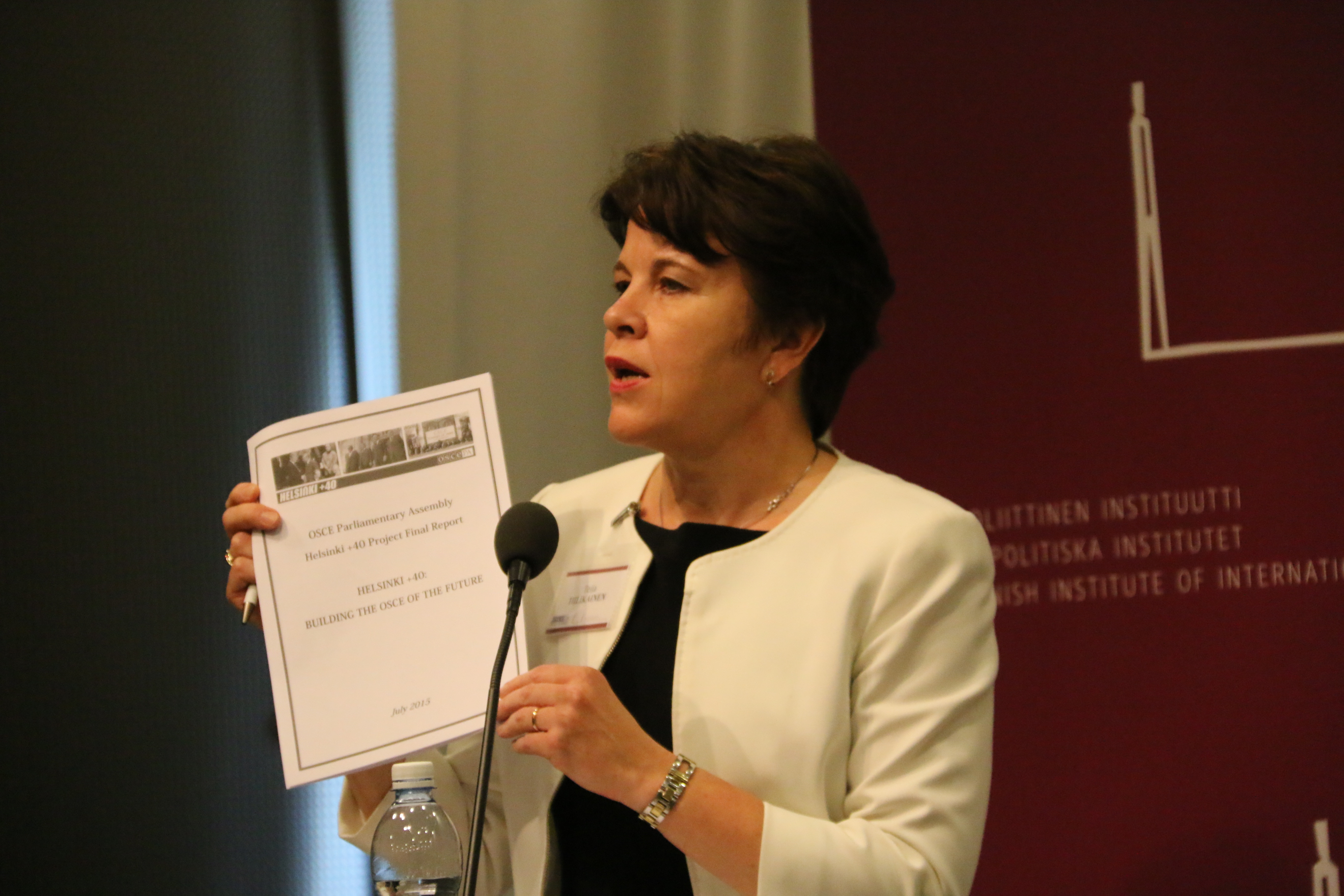 Teija Tiilikainen, Director, Finnish Institute of International Affairs, presents OSCE PA report in Helsinki, 5 July 2015